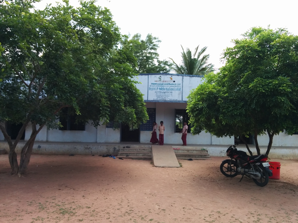 ஊராட்சி ஒன்றிய நடுநிலைப்பள்ளி- காசிம்புதுப்பேட்டை, புதுக்கோட்டை மாவட்டம்